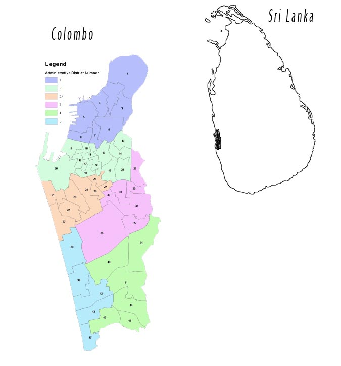 Summary Created by me Bild:Colombo Map.jpg